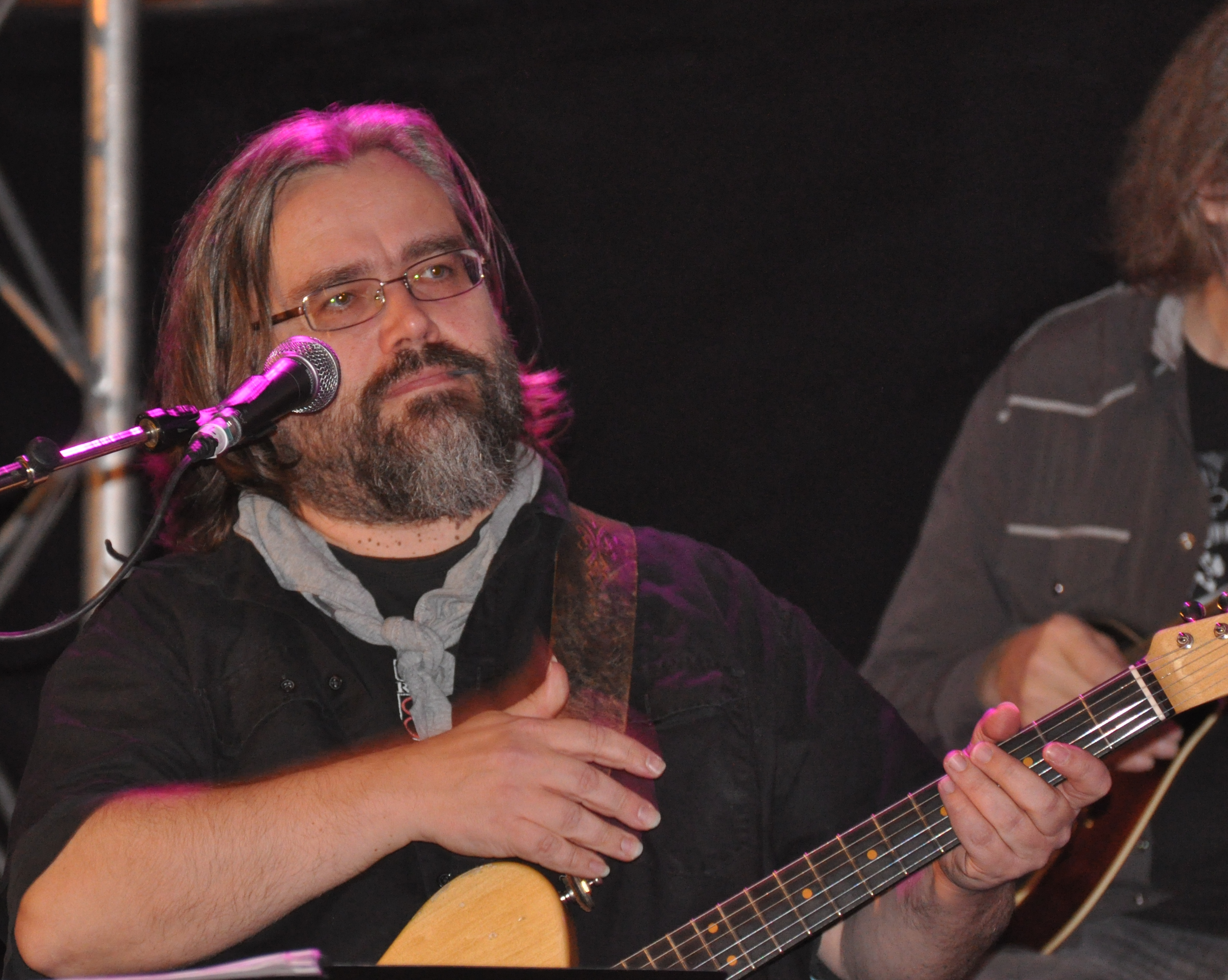 Finnish musician Esa Kaartamo at a gig with Hoedown in Turku, 2010.